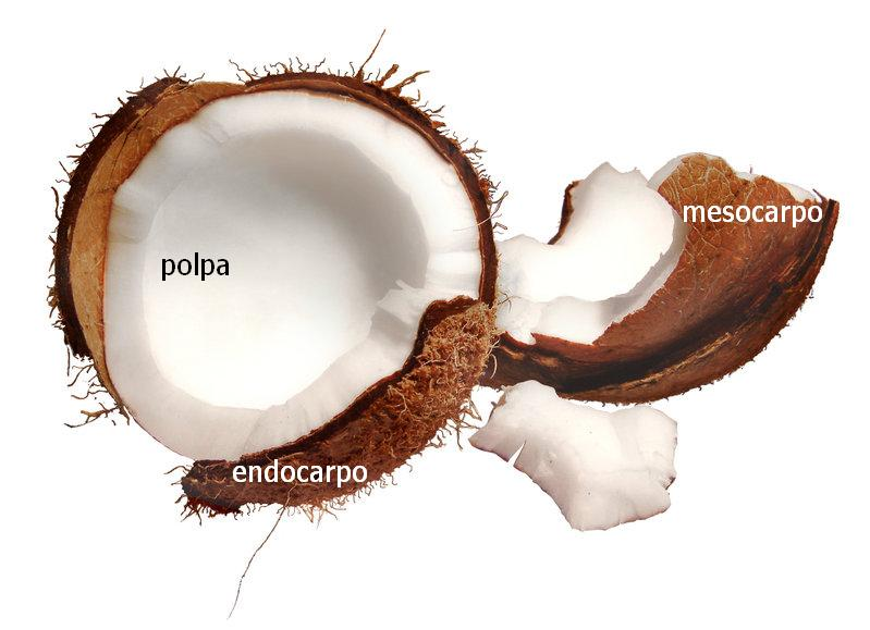 Image Crackedcoconut.jpg with caption added el coco es delicioso